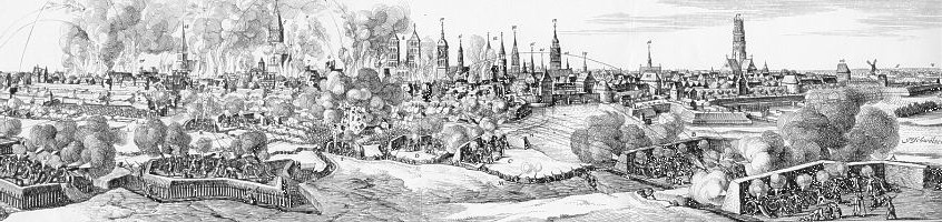 The city of Münster (Westphalia) under siege in the year 1657 by Christoph Bernhard von Galen